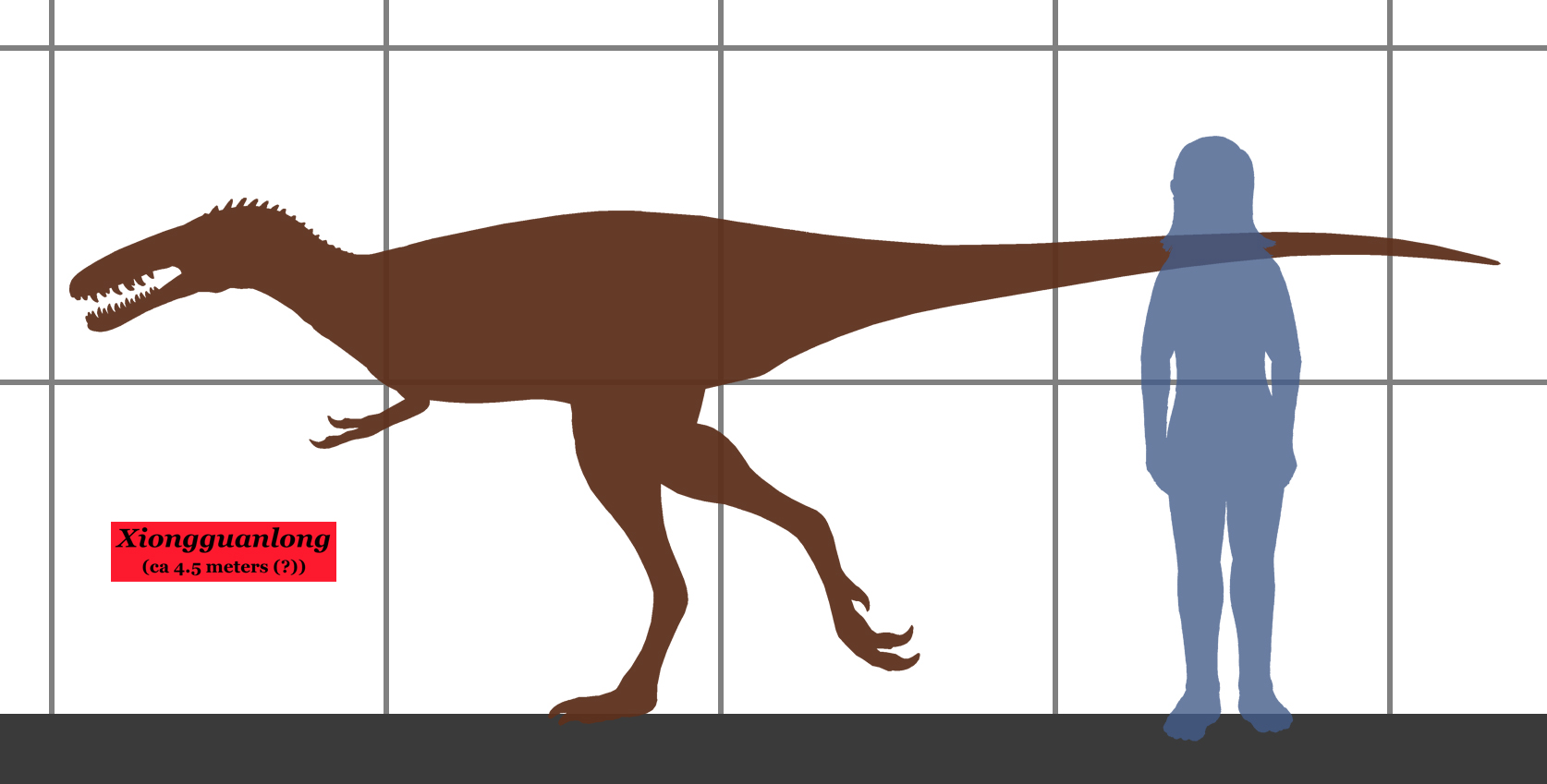 Size comparison between the theropod dinosaur Xiongguanlong (related to Tyrannosaurus rex) and a human.